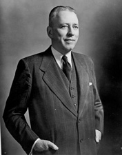 Former Senator Irving Ives of New York.